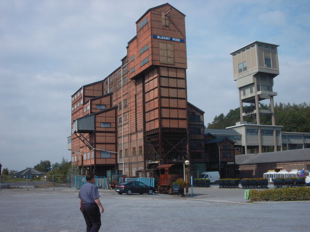 Buildings at Blegny-Mine: at the left is the coal washery, and at right is tower number 1 for coal extraction